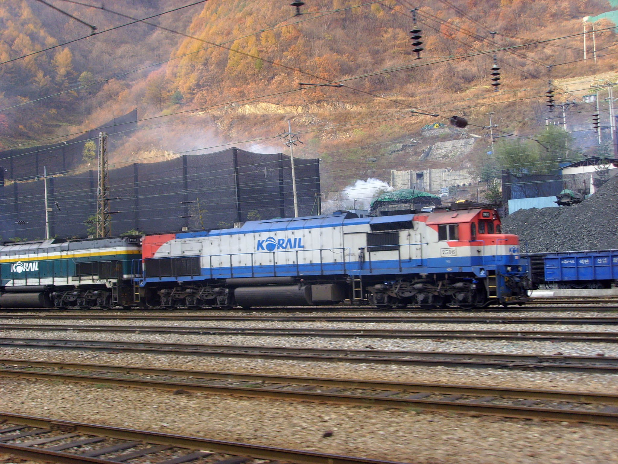 Korail Diesel Locomotive 7516 at Cheolam Station, Yeongdong Line